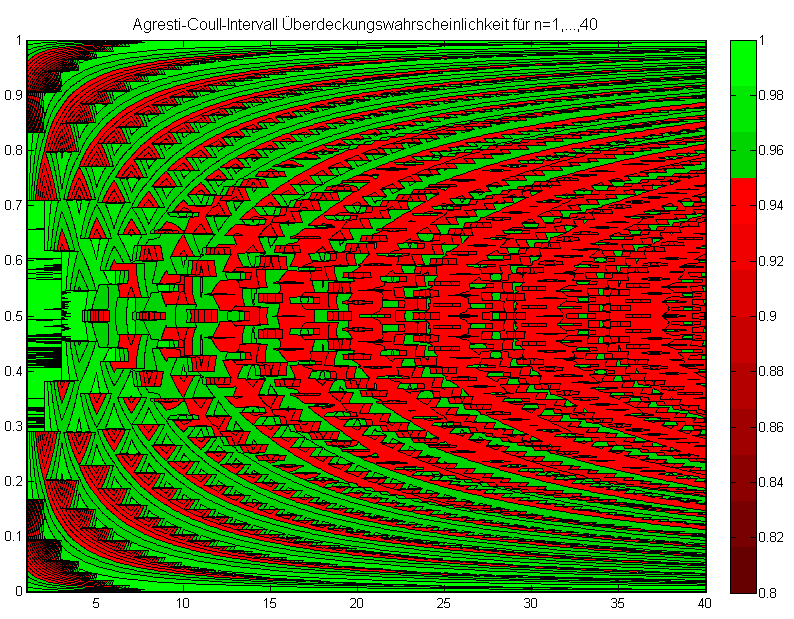 Covering probability for the Agresti-Coull-interval for n=1,...,40.